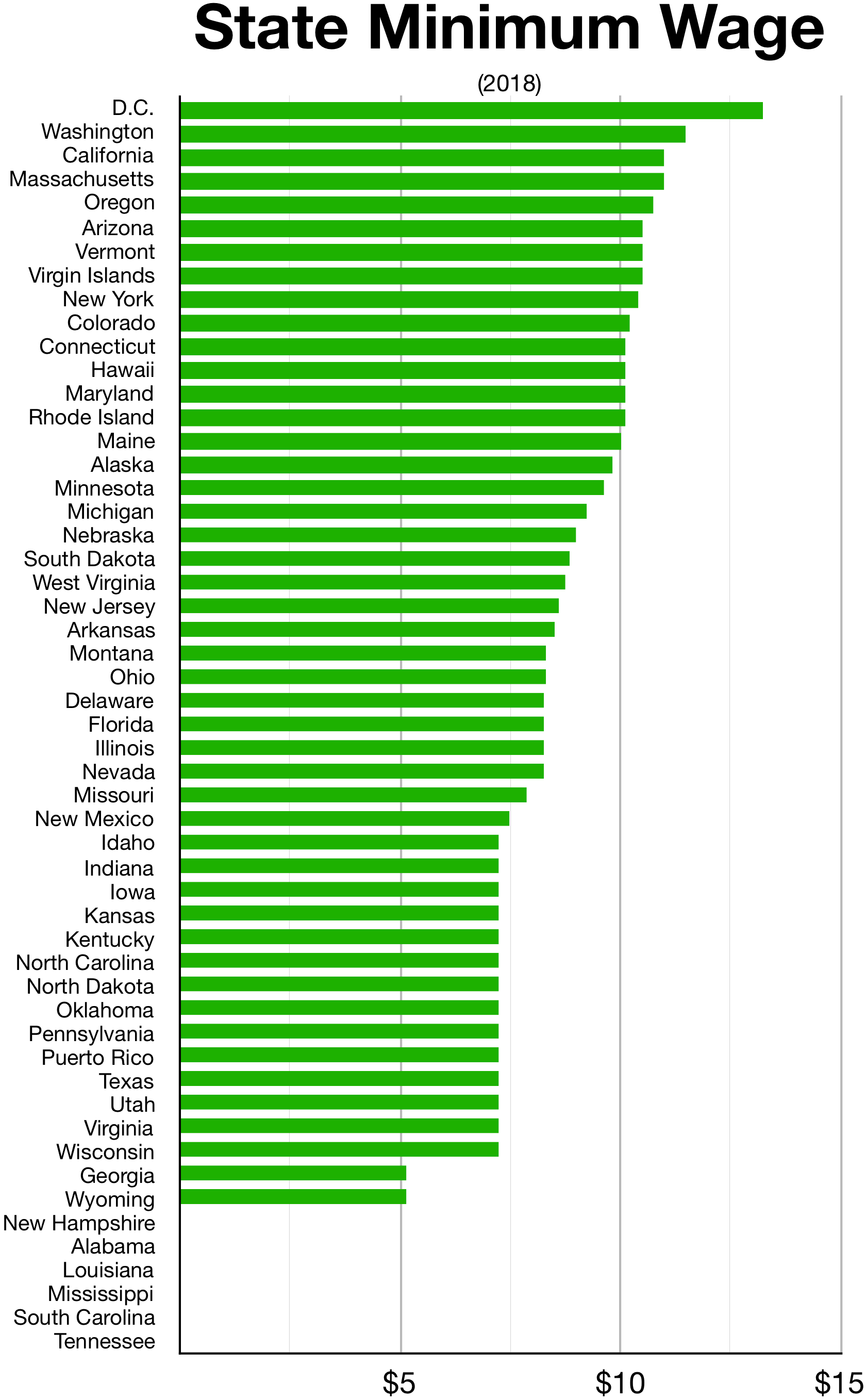 Minimum wage by state